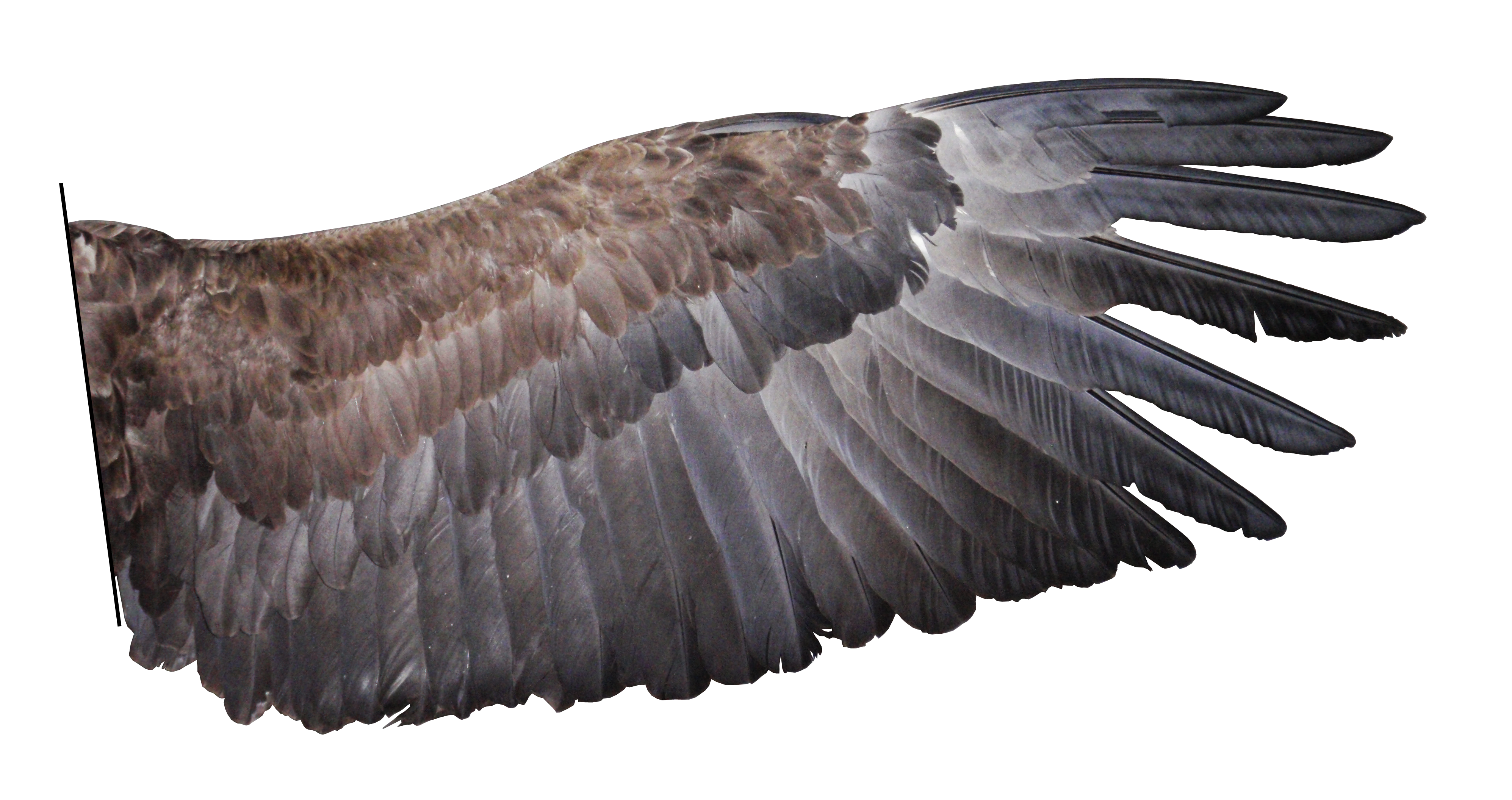 Wing of white-tailed eagle (Haliaeetus albicilla), showing the arrangement of feathers. Wing from a stuffed specimen at Bohusläns Museum in Uddevalla, Sweden.